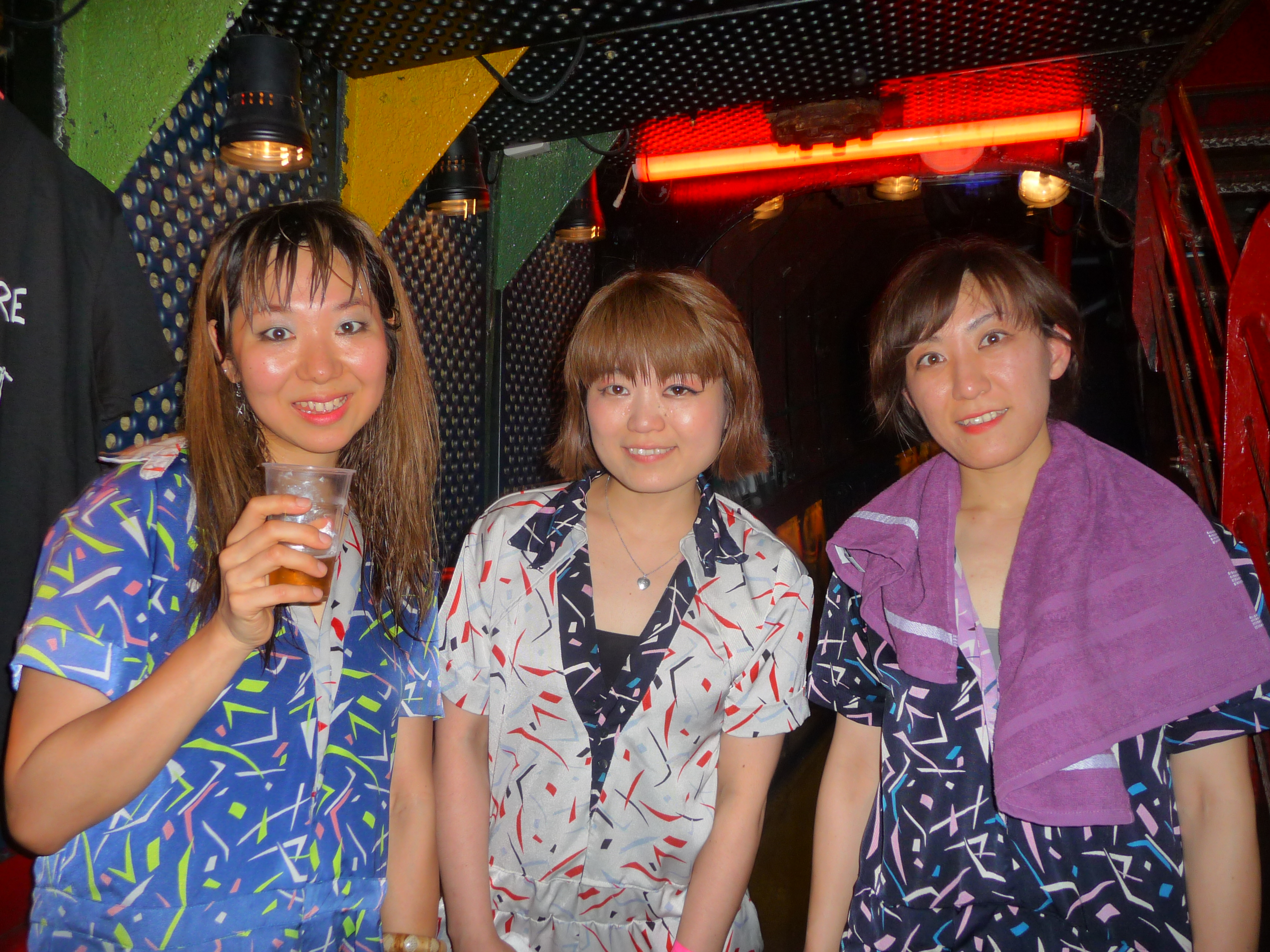 Japanese punk rock band TsuShiMaMiRe at Batofar (Paris, France) on may 23 2017. From left to right: Yayoi Tsushima, Mari Kono, Maiko.